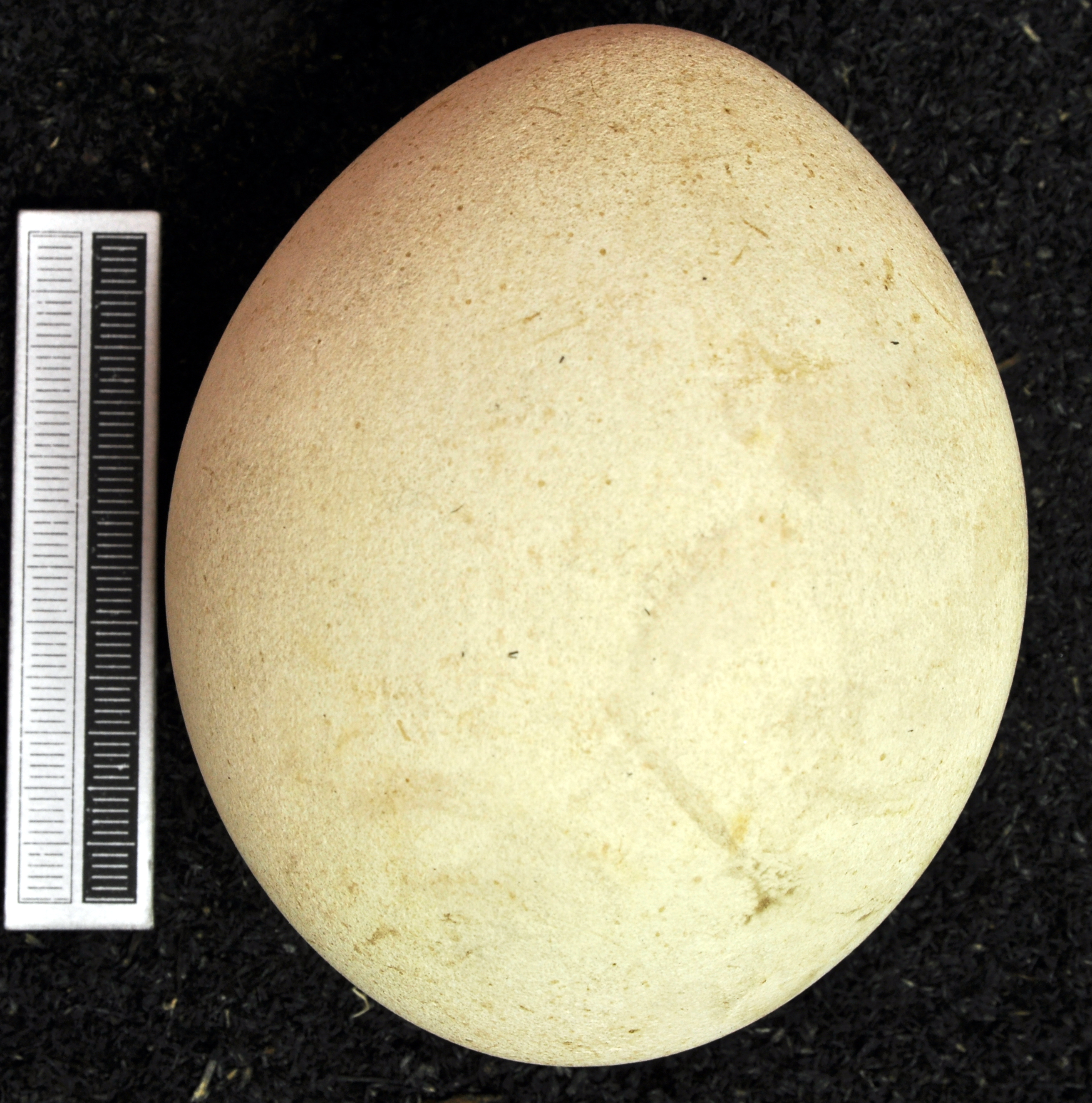 Griffon vulture Gyps fulvus , egg, Coll. Museum Wiesbaden